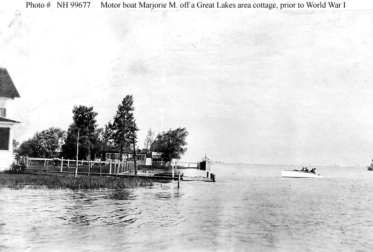 The private motorboat Marjorie M. (at right) off a cottage on the Great Lakes prior to her United States Navy service as the patrol vessel